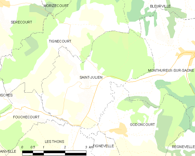 Map of French municipality Saint-Julien